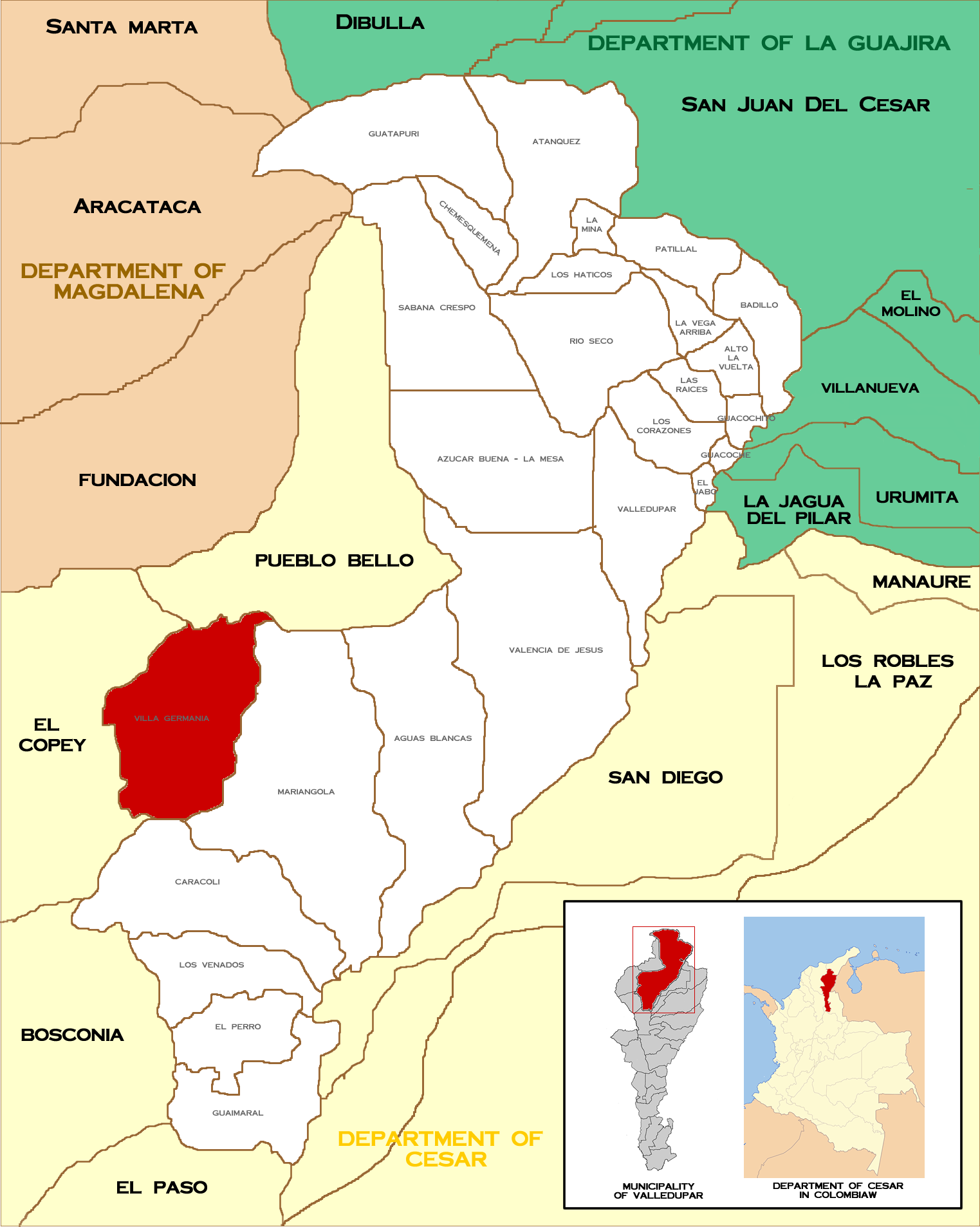 Map of Corregimientos of Valledupar, Villa Germania